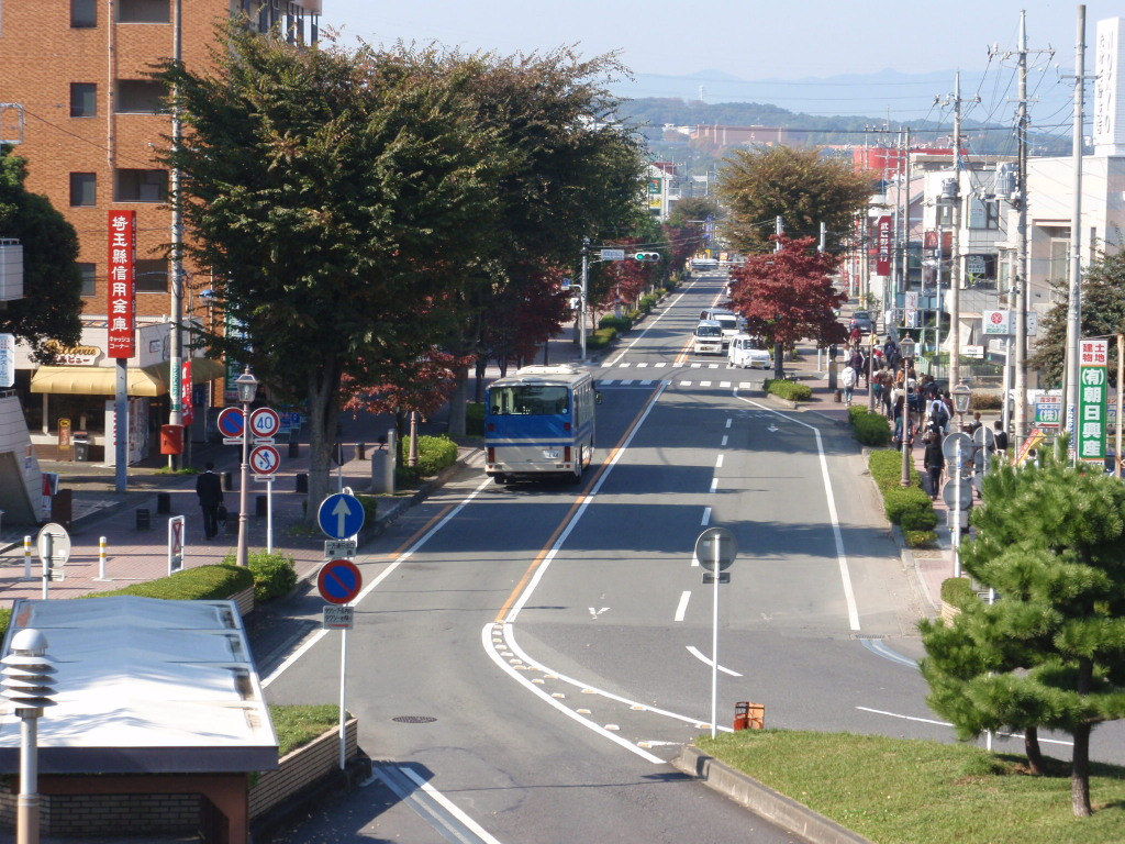 Takasaka-Station west-road, Higashimatsuyama-city, Saitama-pref, Japan